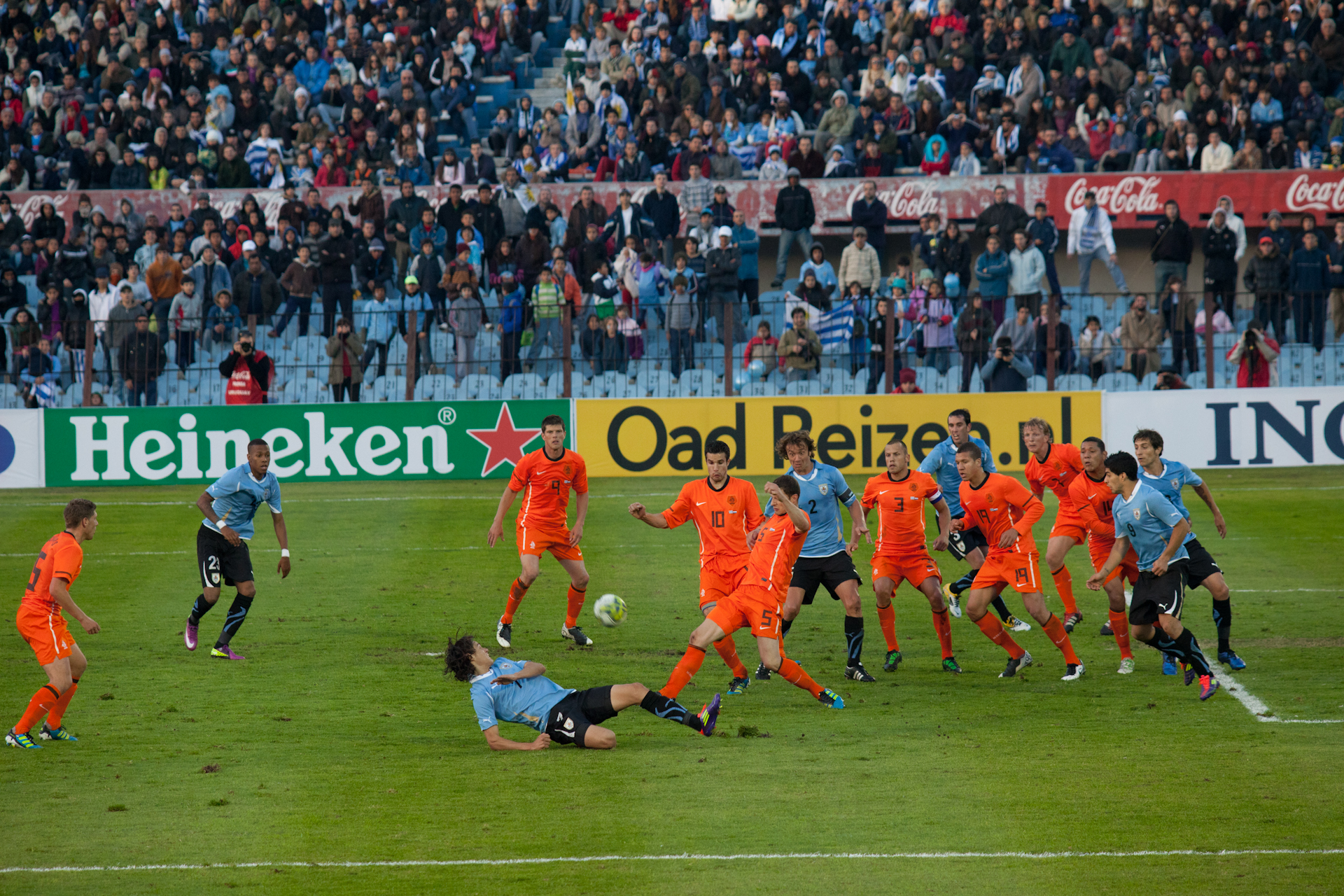 Johnny Heitinga & Jeffrey Bruma